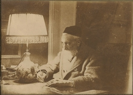 Last known photograph of Anatole France